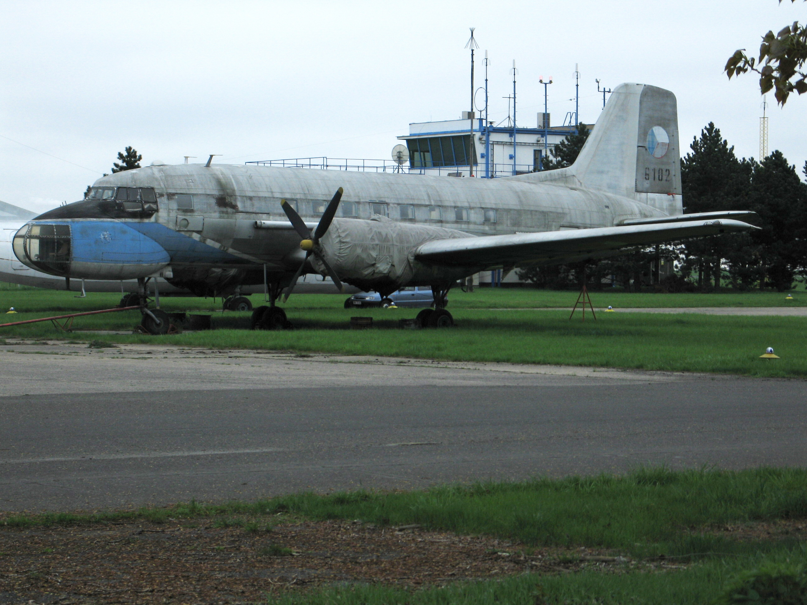 Photographic version Avia Av-14FG (Czechoslovak-made Ilyushin Il-14), Kbely airport, Prague